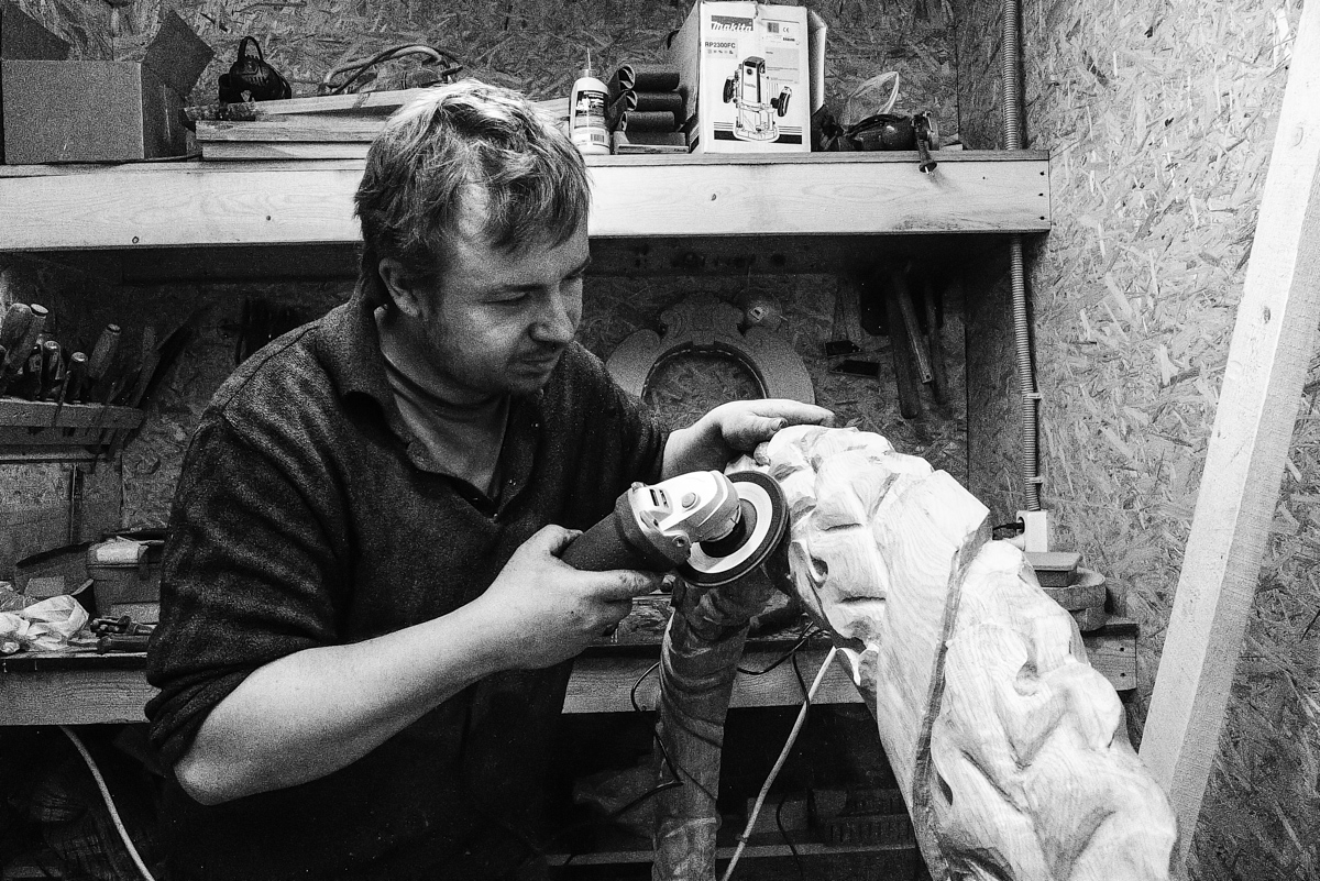 Making the decor of ship «Poltava», February 2015